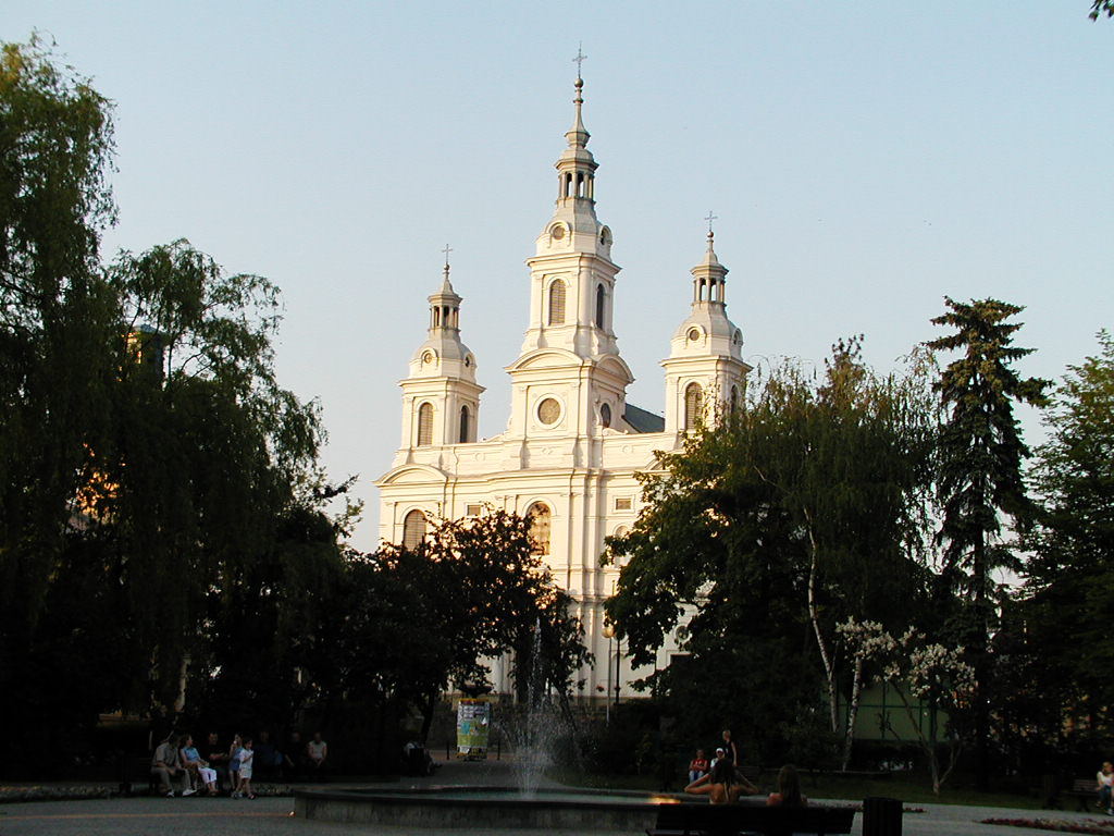 Radomsko, town in central Poland; St. Lambert Church, built in 1869-1876 in the neo-baroque style